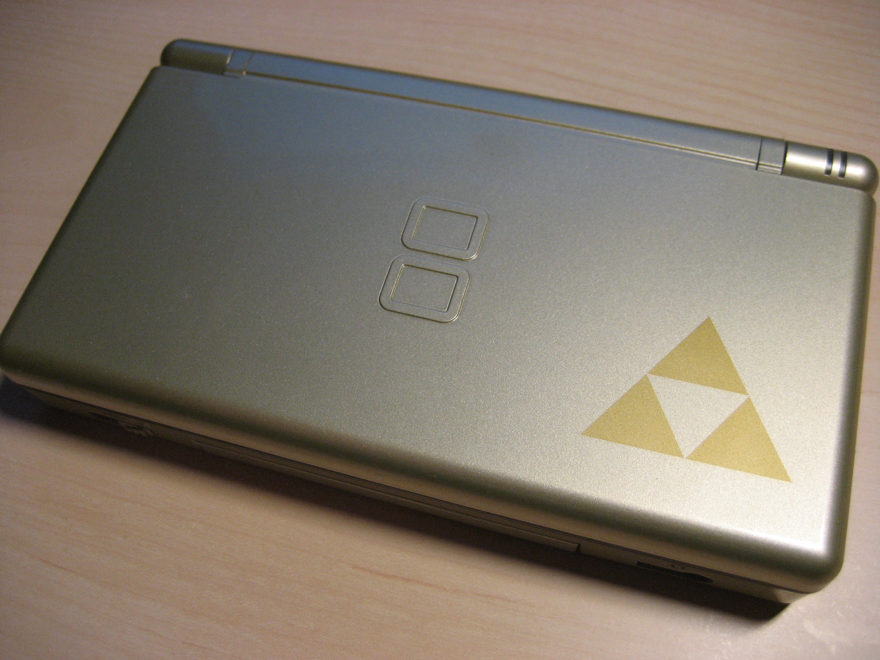 A picture of the Limited Edition of the Nintendo DS Lite. Zelda Edition.